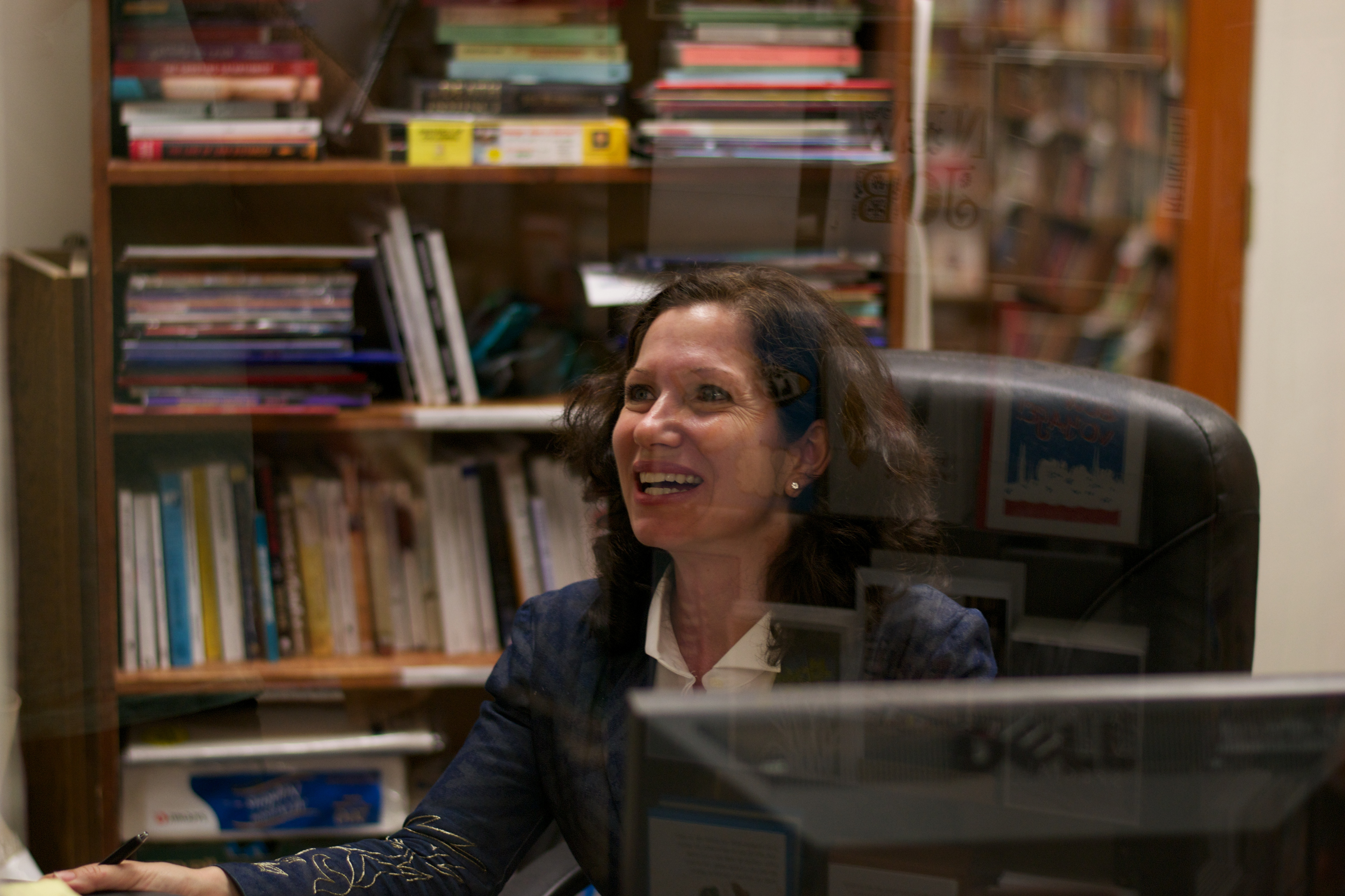 reading at Politics and Prose, Washington, D.C.